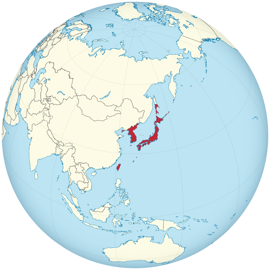 Empire of Japan on the globe (de-facto) (Japan centered)